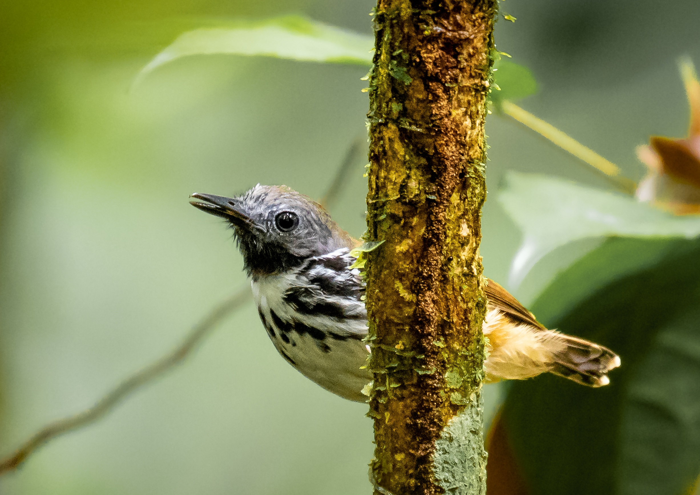 Spot-backed Antbird (male), Manacapuru, Amazonas, Brazil